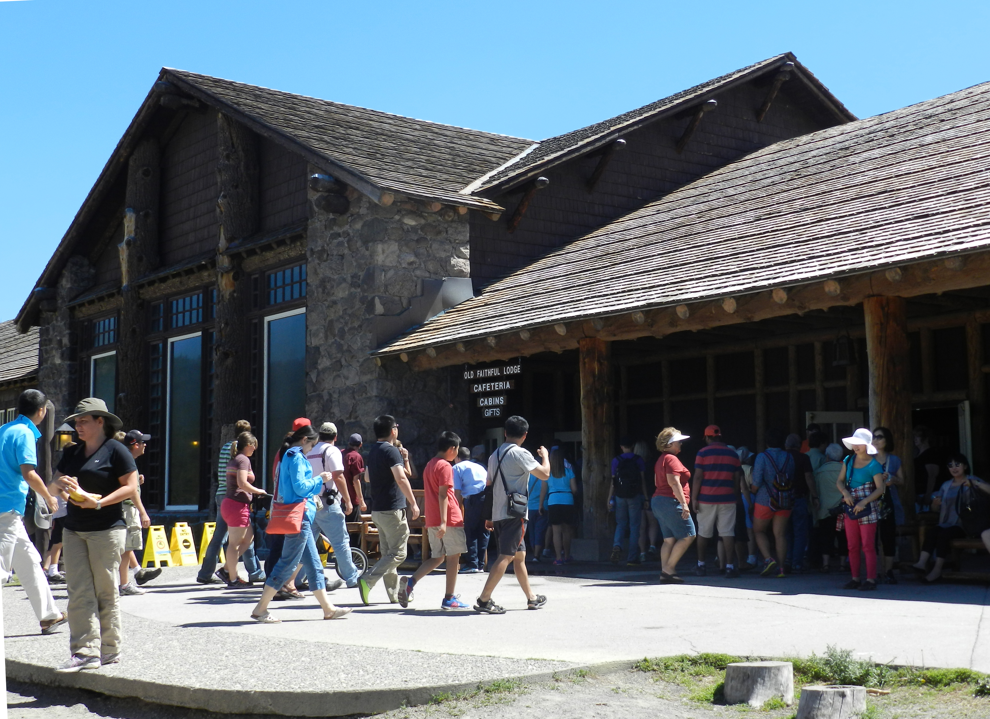 Old Faithful Lodge, visitor walking in front of building; Diane Renkin; July 22, 2013